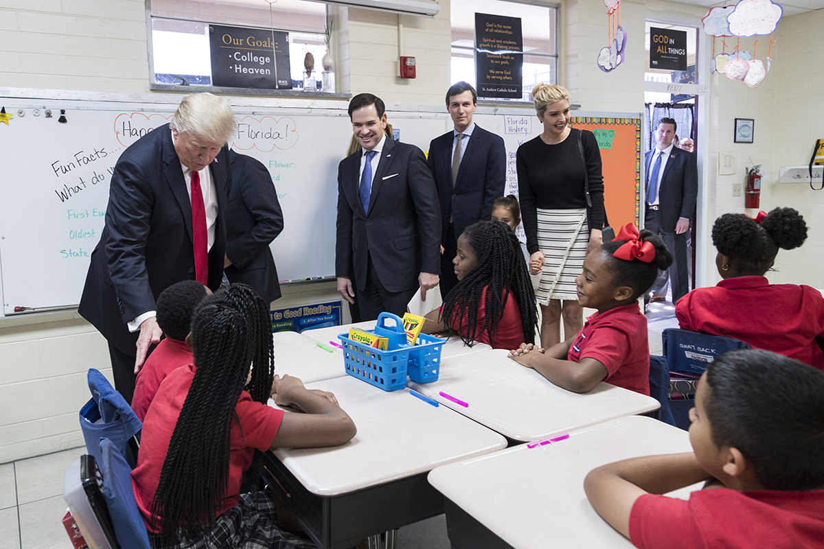 President Donald Trump, Sen. Marco Rubio (FL), Jared Kushner, and Mrs. Ivanka Trump visit a fourth grade classroom at Saint Andrew's Catholic School in Orlando, Florida, Friday, March 3, 2017. (Official White House Photo by Shealah Craighead)